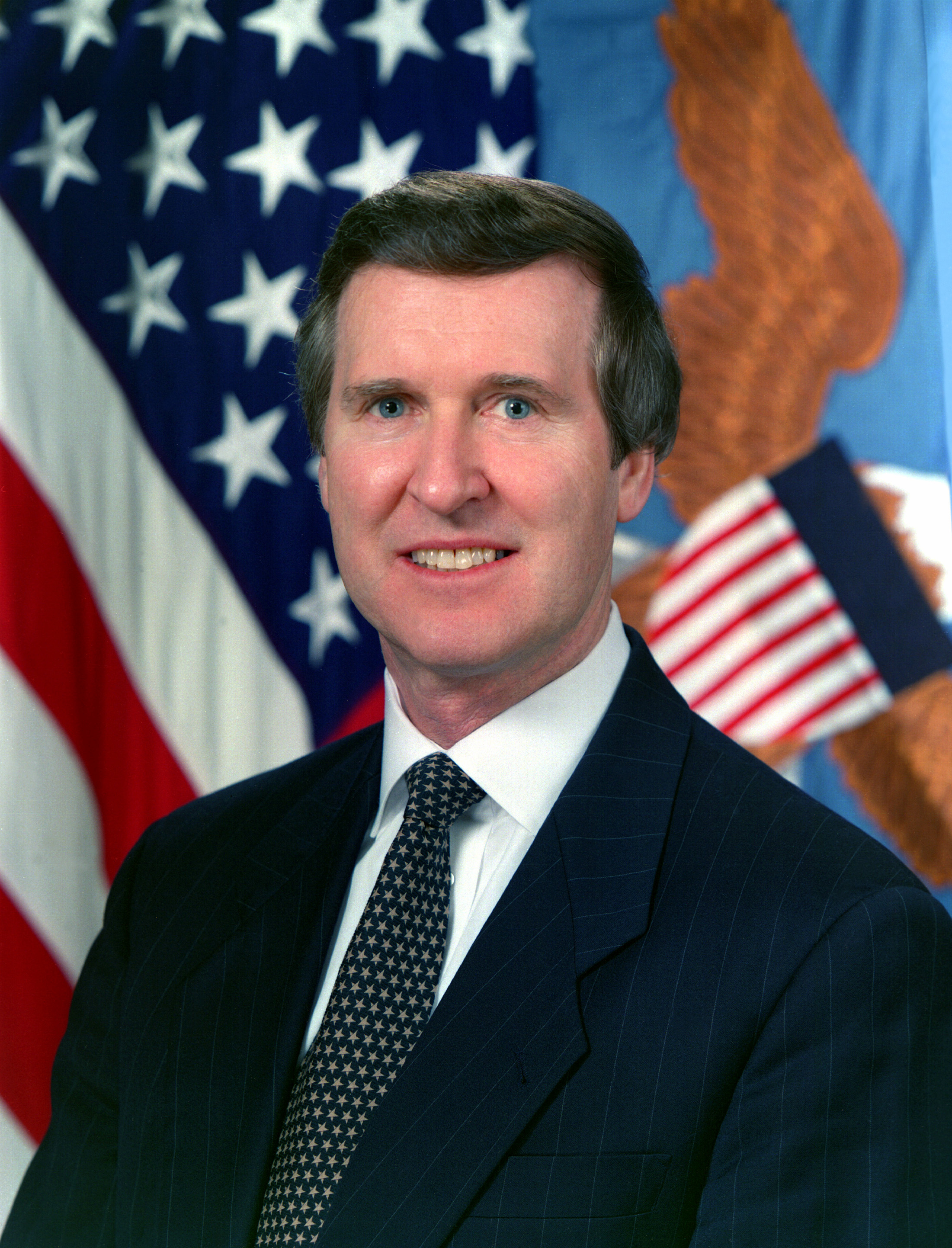 William Cohen, former Secretary of Defense of the United States of America and former U.S. Senator and Representative.